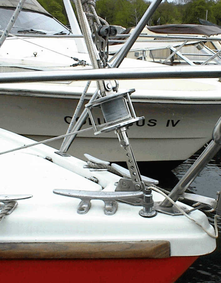 Roller furling mechanism on fore stay